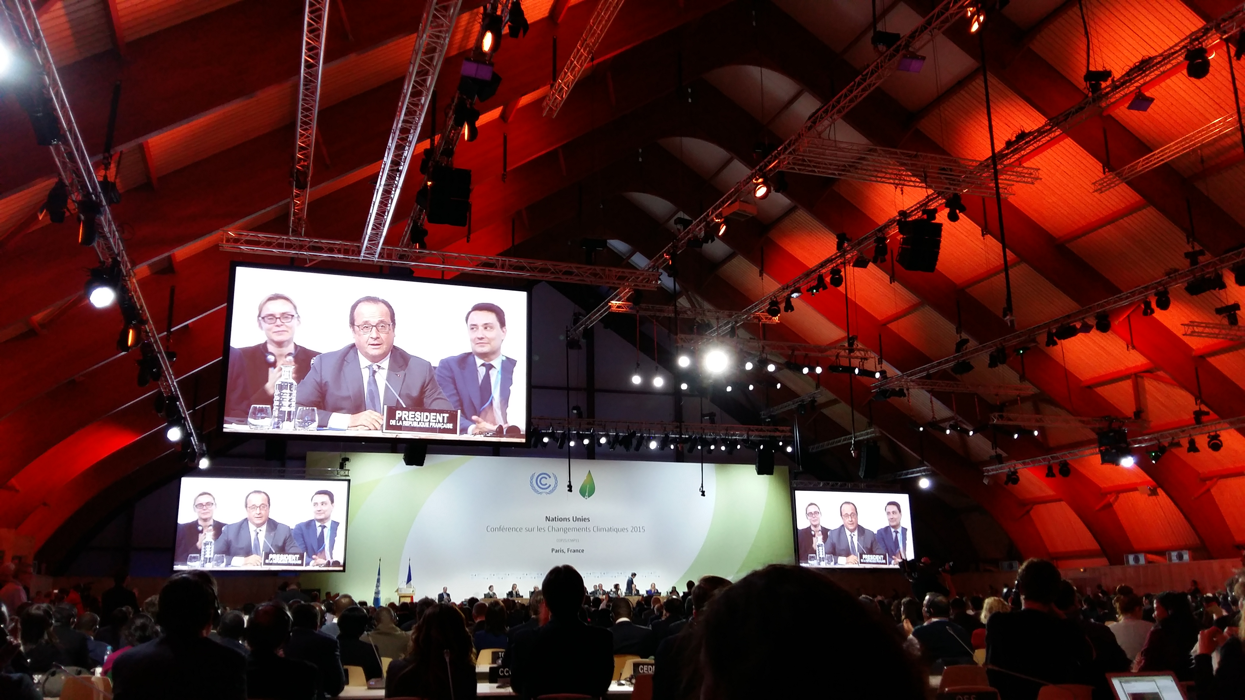 François Hollande's speech at the closing ceremony of the cop21 conference in Le Bourget (12/12/2015)